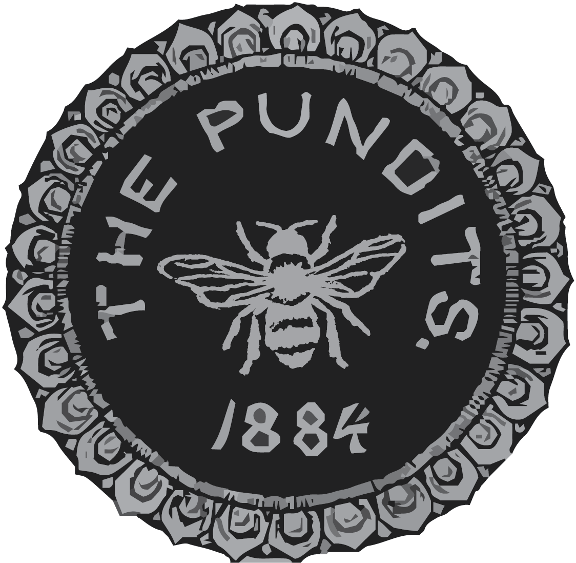 Logo for The Pundits updated in 2019